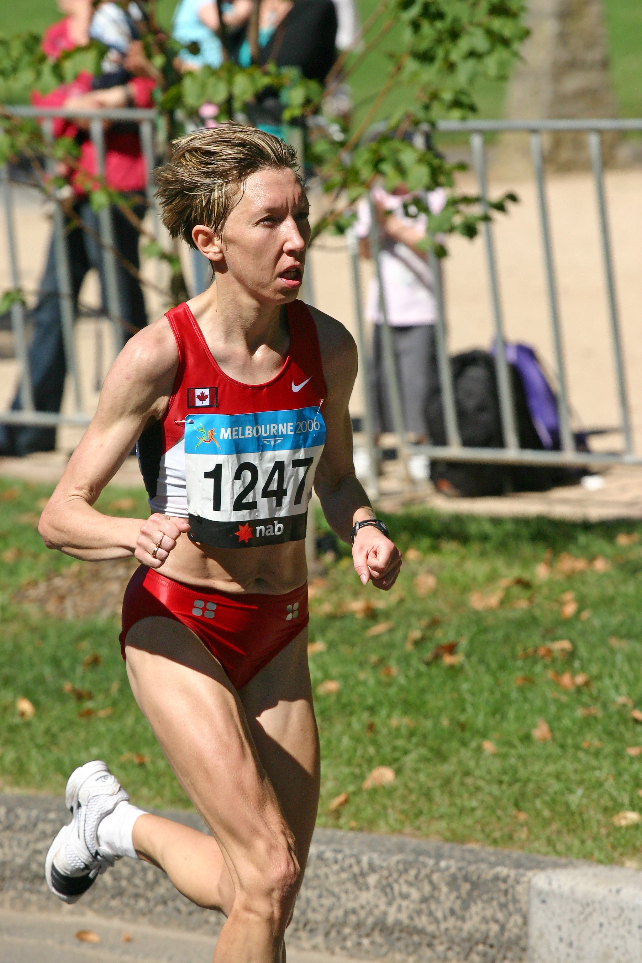 Canadian athlete Lioudmila Kortchguina running during the marathon event of the 2006 Commonwealth Games.